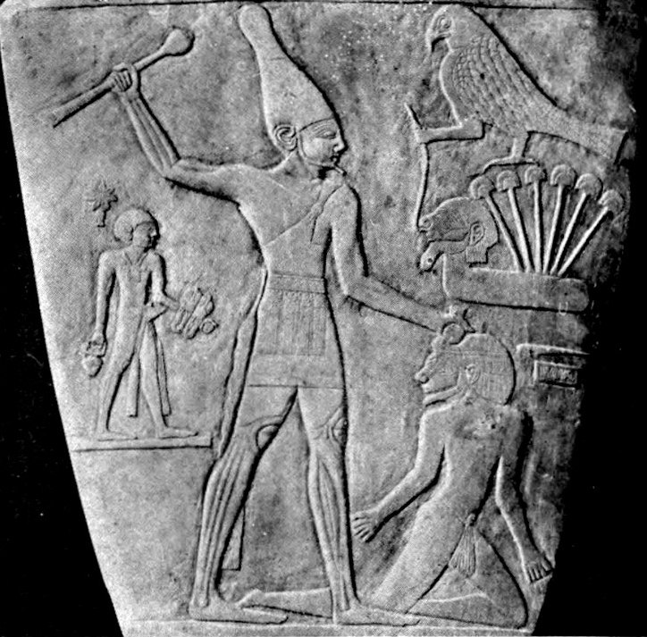 KING NARMER, SLATE PALETTE.